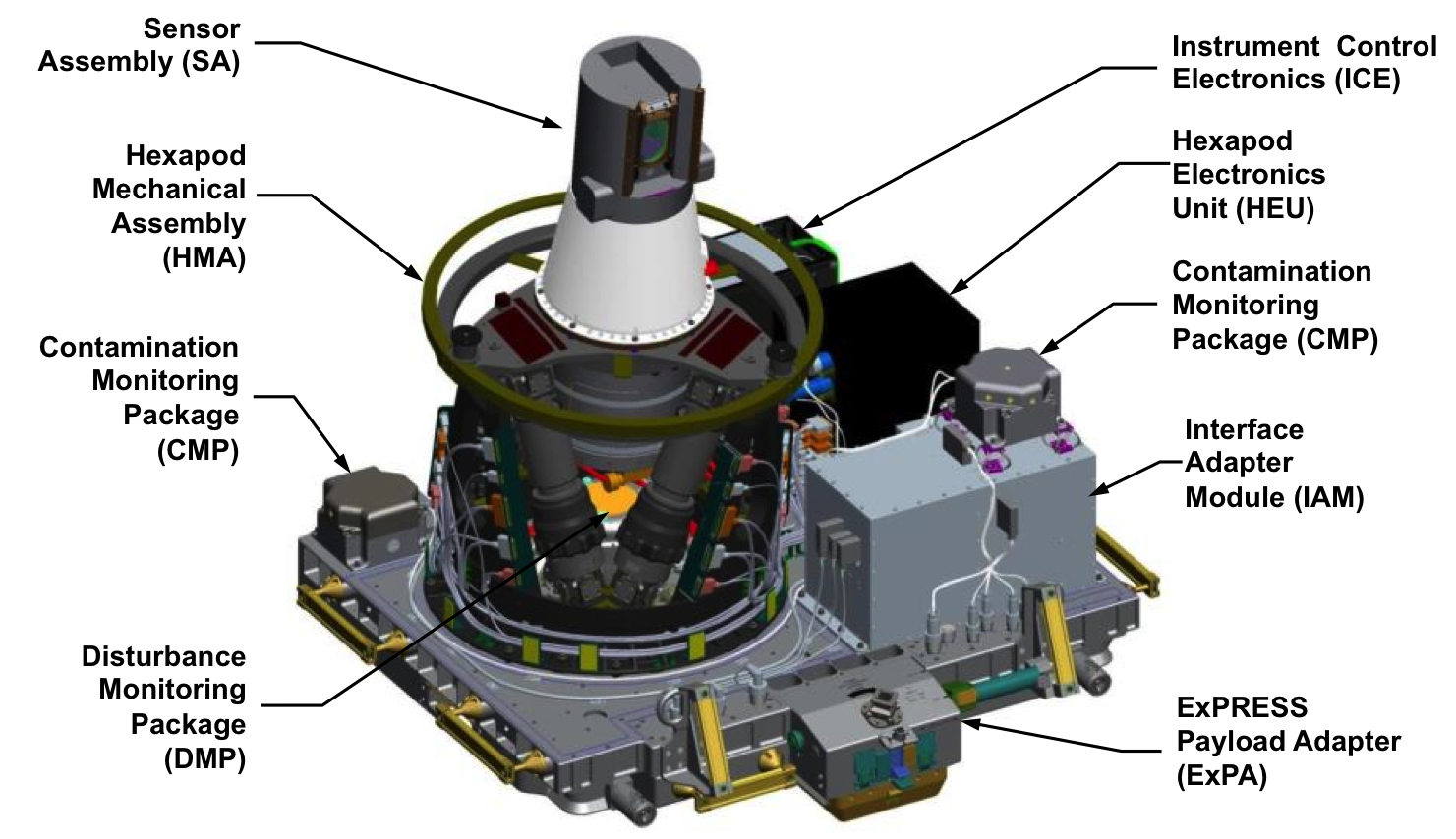 SAGE III/ISS Instrument Payload